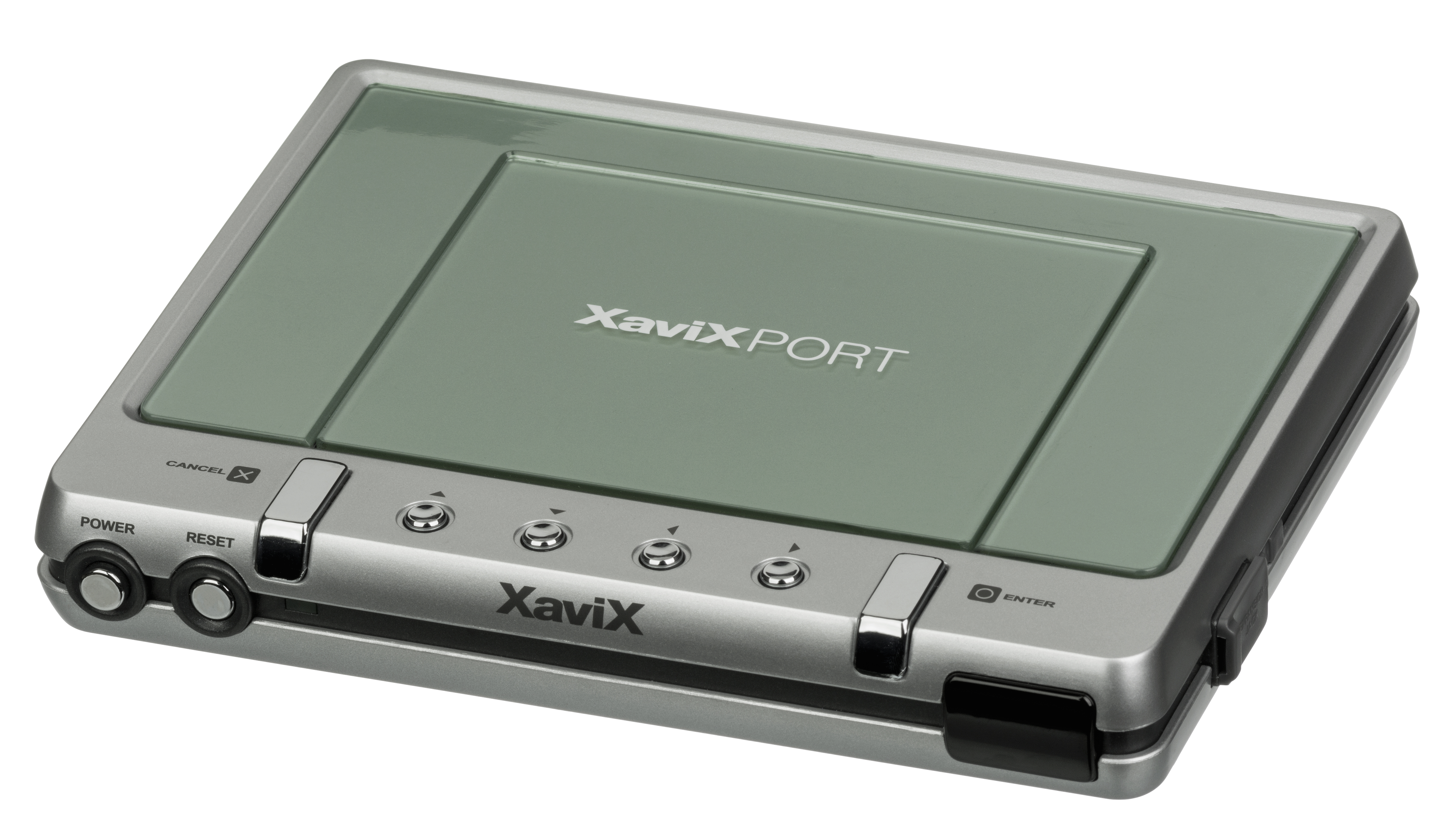 The Xavix / XaviXPORT console, a video game system released by SSD Company Limited in 2004. The system focuses on wireless, motion controllers for various sports-themed games.